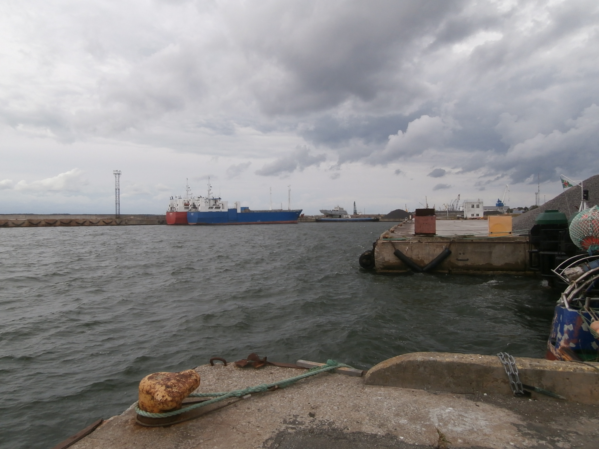 Port of Meeruse - Meeruse sadam - in Kopli Tallinn 15 September 2018 (Agot alongside Darina at quay 11, PVL-104 Tiir ashore between Port of Meeruse and Bekker Port, barge OB-1 at quay 10, floating crane Heracles in Port of Vene Balti in the background; flag of SB-1 at quay 4 and fishing vessel EK-0601 Rossvik at quay 2 in the foreground)